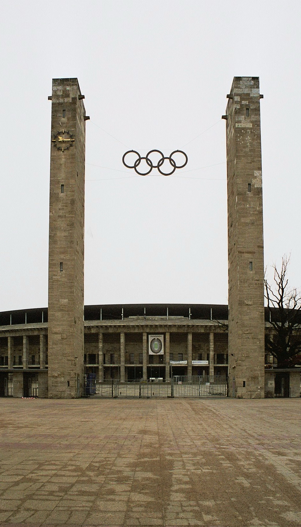 Olympic Stadium in Berlin, Germany. Main Entrance with Olympic Rings (from Summer Olympics 1936)